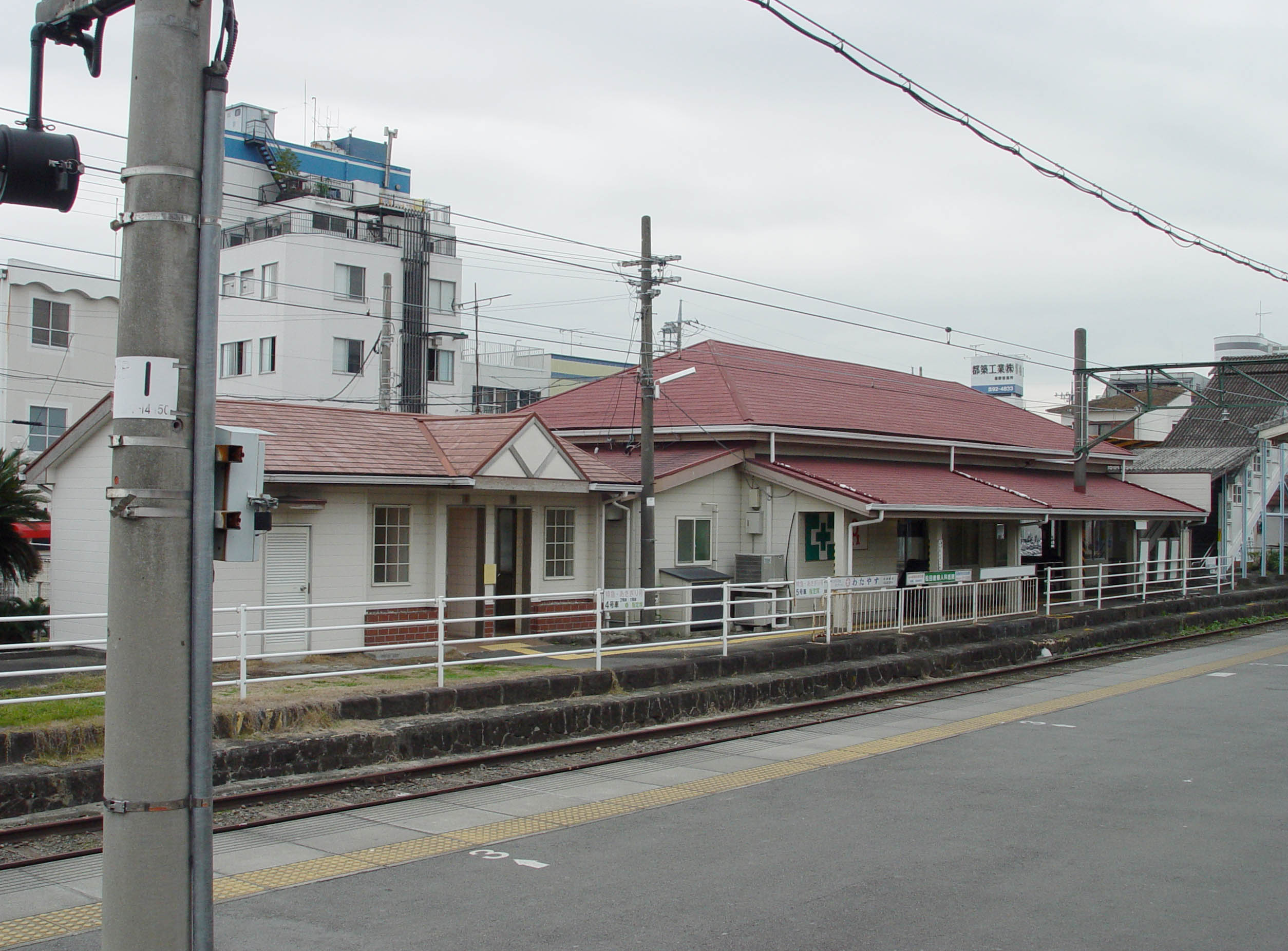 Susono Station, Gotenba Line, Japan